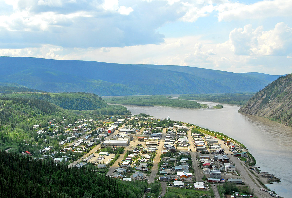 Photo of Dawson City, Yukon, taken by Michael Edwards on June 10, 2007. For the article Dawson_City